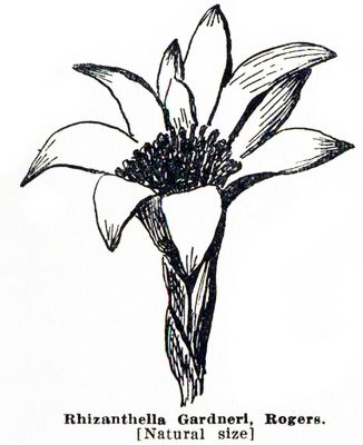 Rhizanthella gardneri, Image from Gutenberg version of Emily Pelloe: "West Australian Orchids", page 66